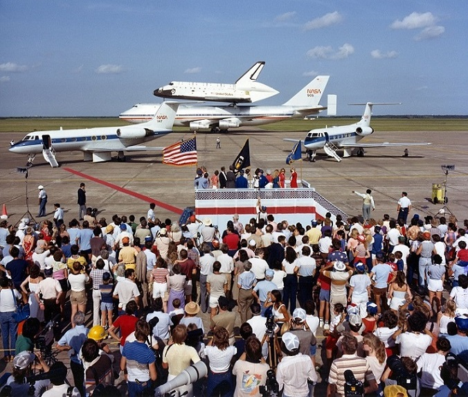 New space shuttle orbiter Challenger (OV) 099 unveiled after STS-4 landing at Ellington Air Force Base. A large crowd was on hand to see both the landing and the new orbiter. Dressed in blue flight suits, Astronauts Thomas K. Mattingly, II (right) and Henry W. hartsfield, Jr., can be seen on the podium at center. Twin NASA Gulfstream aircraft can be seen behind the podium. The new orbiter, atop its 747 carrier aircraft, sits between the two Gulfstreams.